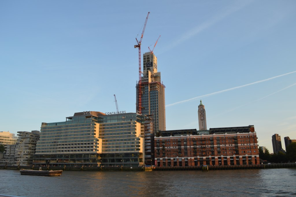 Southbank Tower